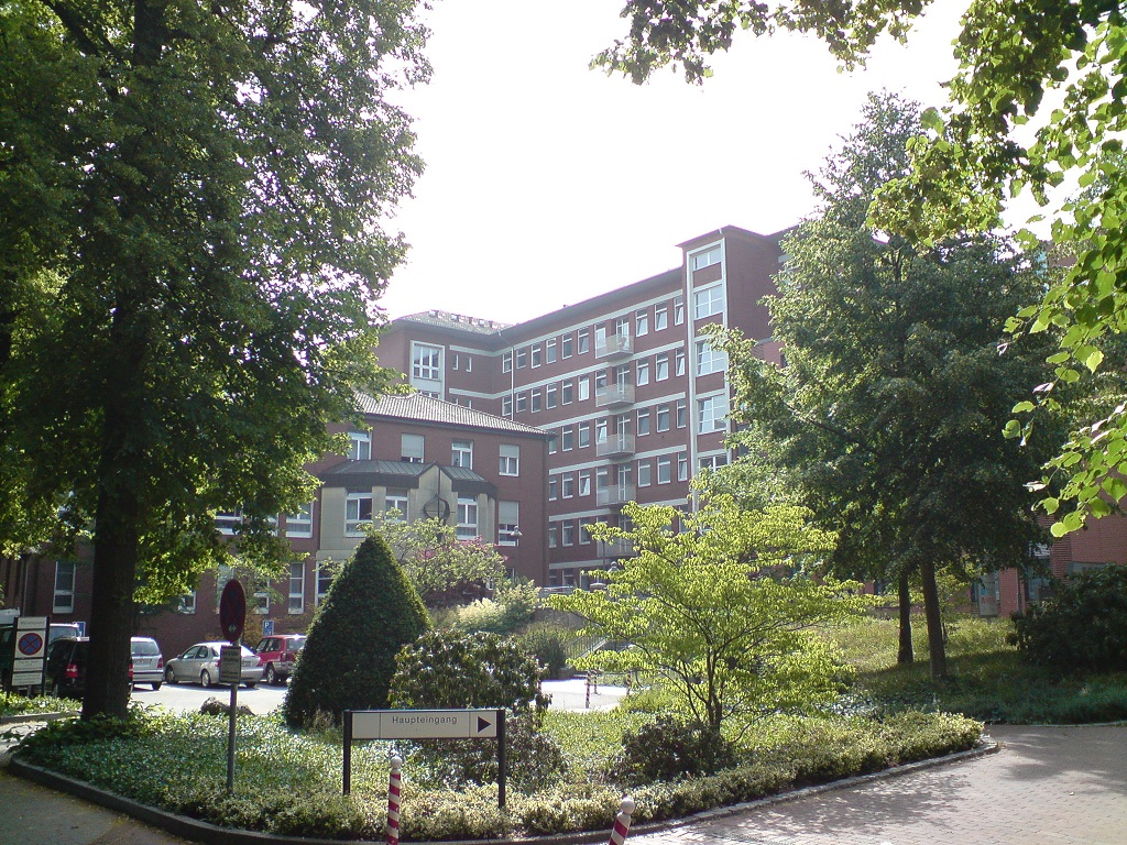 Entrance area of Herz-Jesu-Hospital in Münster-Hiltrup.